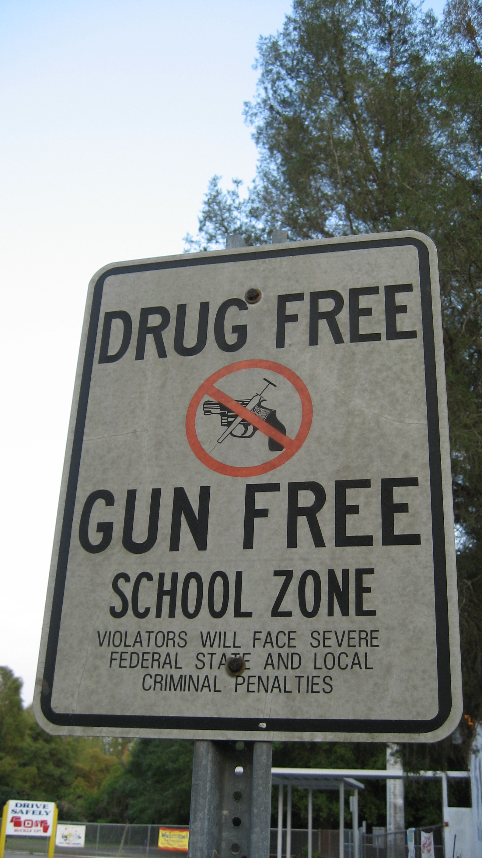 Drug Free and Gun Free